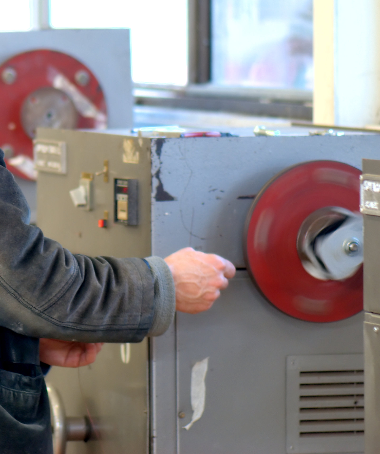 A winder being used in the construction of a transformer winder/coil.